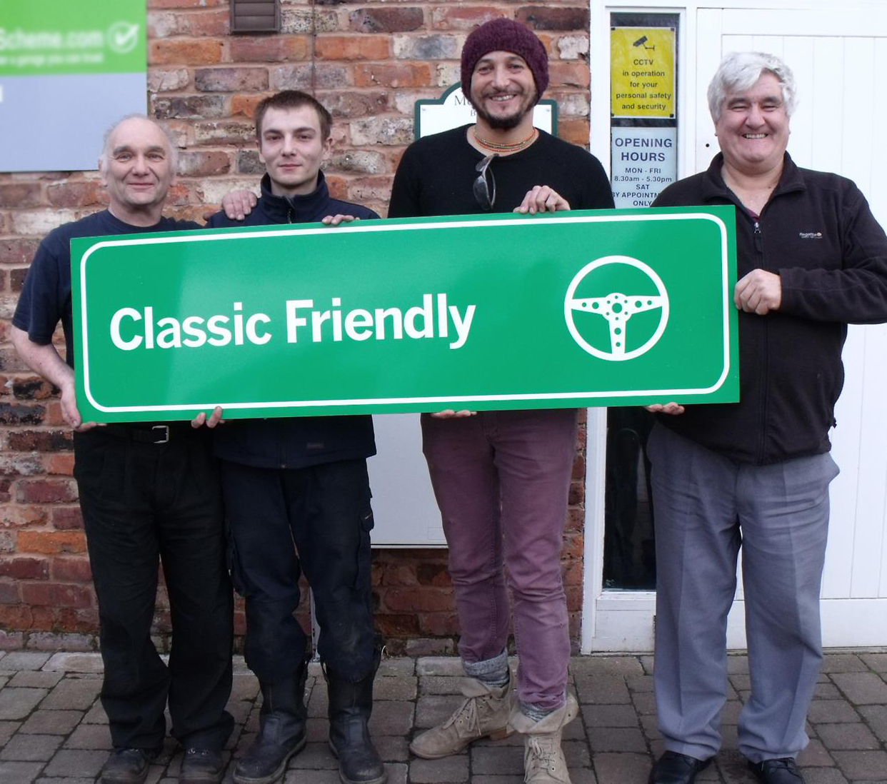 Fuzz Townshend hands over Classic Friendly Sign to John Woods Motorcare in Chester, newly approved as a Classic Friendly Scheme repair garage